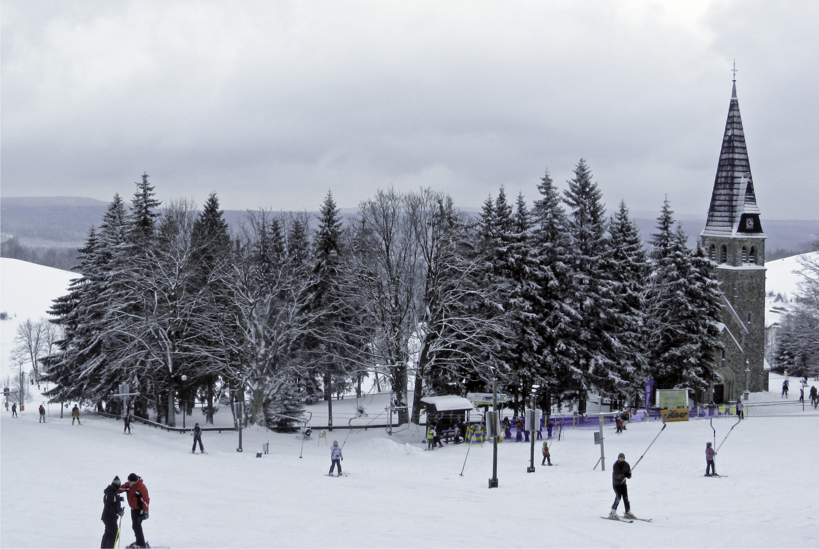 Church in Zieleniec at winter